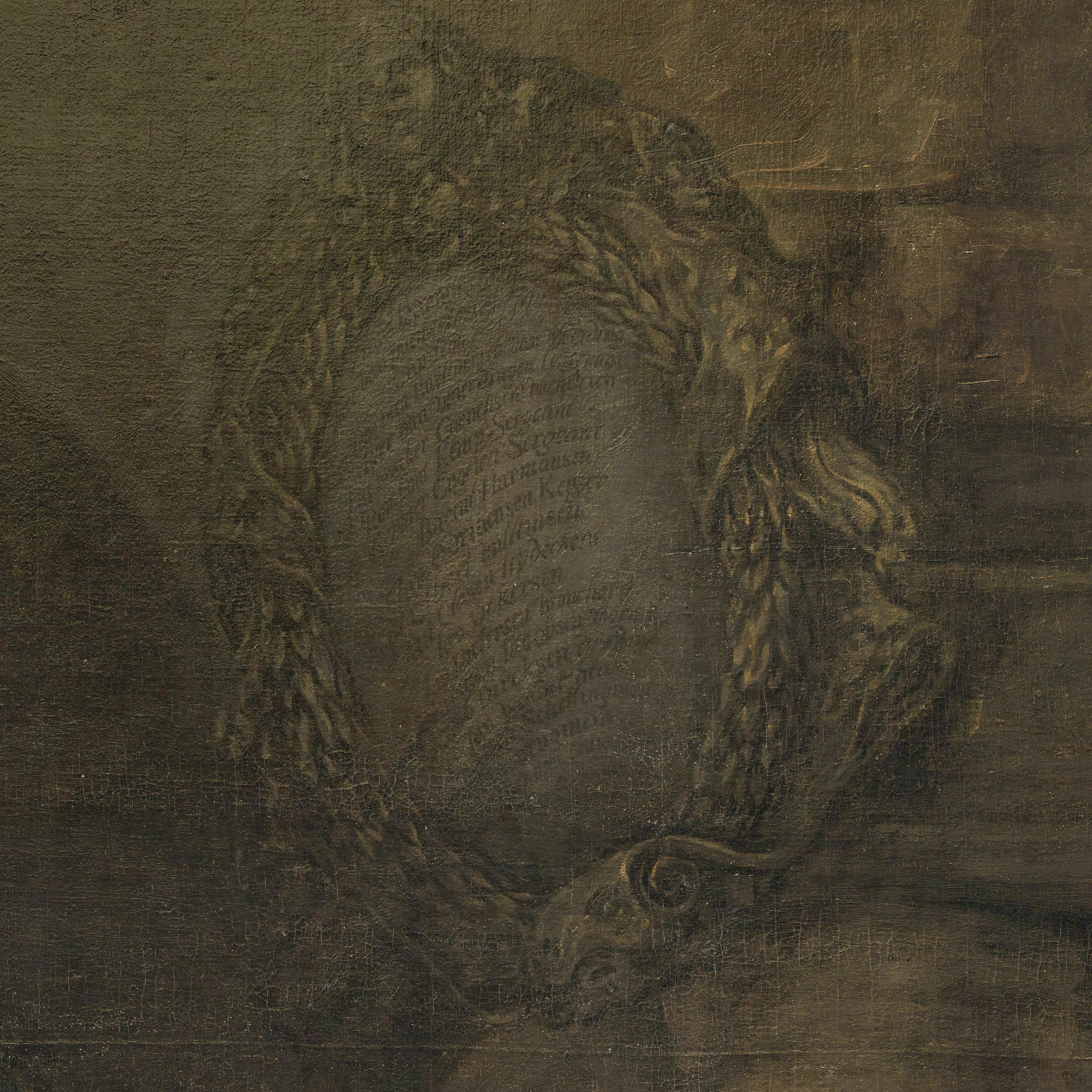 Detail from Rembrandt's Night Watch. Shown is the shield with the names of all depicted people. Note that this image is edited from the original to give it more contrast. Frans Banning Cocq/ heer van Purmerlant en Ilpendam/ Capiteijn/ Willem van Ruijtenburch van Vlaerding/ heer van Vlaerdingen' Leutenant/ Jan Visscher Cornelisen' vaendrich/ Rombout Kemp' Sergeant/ Reijnier Engelen' Sergeant/ Barent Harmansen/ Jan Adriaensen Keyser/ Elbert Willemsen/ Jan Clasen Leijdeckers/ Jan Ockersen/ Jan Pietersen bronchorst/ Harman Iacobsen wormskerck/ Jacob Dircksen de Roy/ Jan vander heede/ walich Schellingwou/ Jan brugman/ Claes van Cruysbergen/ Paulus Schoonhoven (Haverkamp-Begemann 1982, p. 12-13)